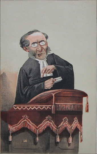 Caricature of Reverend John Cumming. Caption read "The End of the World".